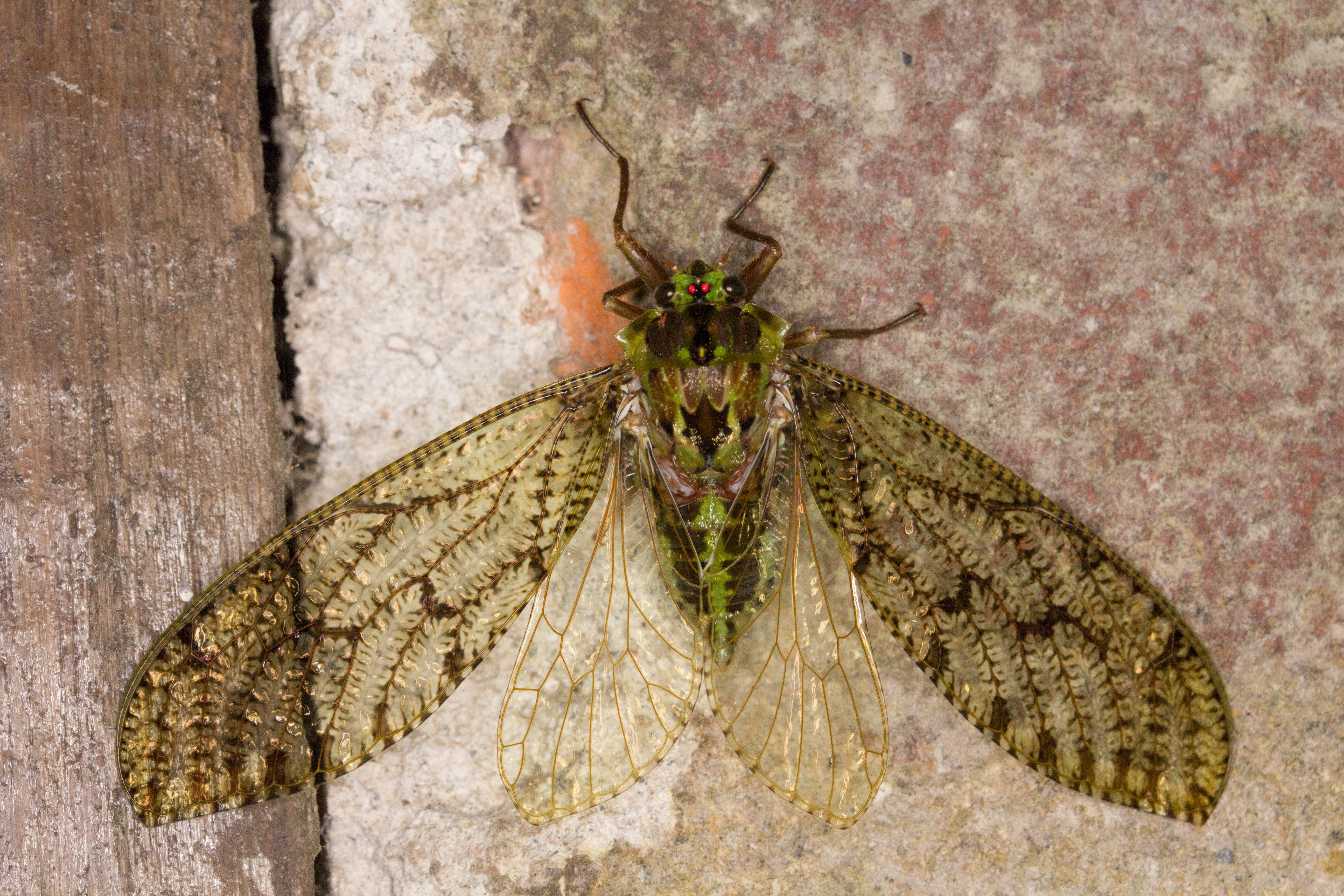 Cicada from Ecuador